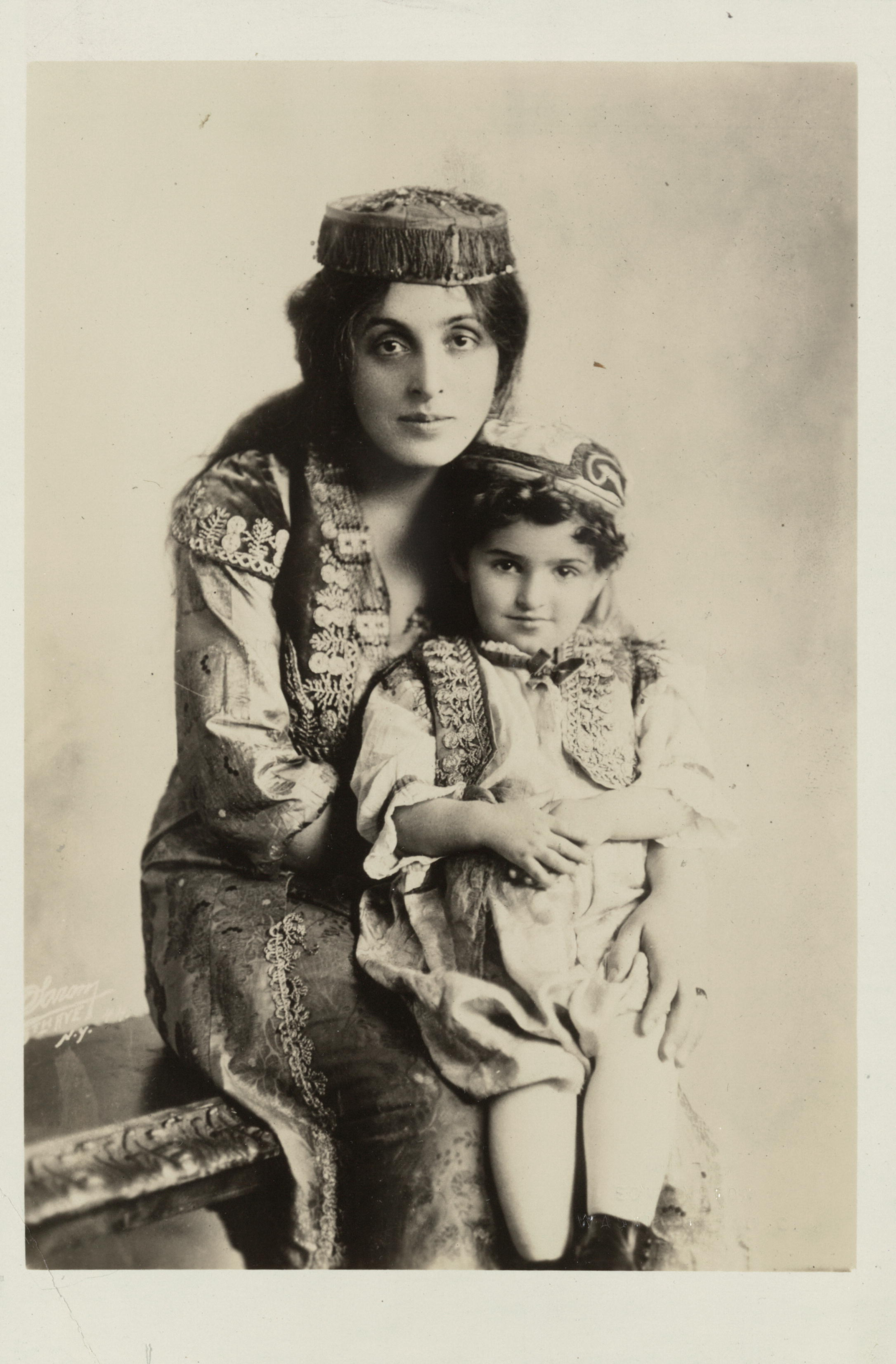 Summary: Formal portrait of Lady Anne Azgapetian, wife of General Azgapetian of Armenia, seated and holding daughter Araxie Azgapetian in her lap, both wearing hats and richly brocaded or embroidered clothing. A caption attached to an alternate photograph of Lady Anne Azgapetian in the same folder indicates that she was scheduled to speak on behalf of Armenian women at the National Woman's Party convention, February 15-19, 1921, in Washington, D.C. Photograph published in The Suffragist, 9, no. 1 (Jan.-Feb. 1921): 343.